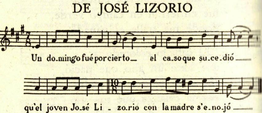 (mexican folk ballad - public domain)